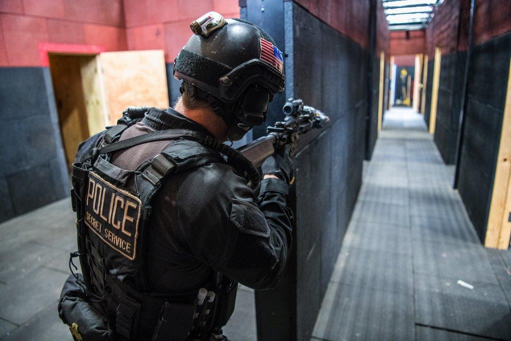 Secret Service Counter Assault Team members demonstrate their unique and unmatched skill set at the Rowley Training Center in Maryland.